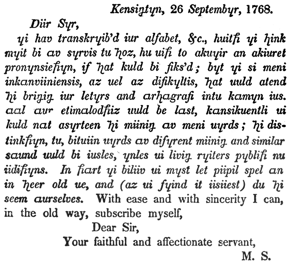 Sample letter using Benjamin Franklin's phonetic alphabet from The writings of Benjamin Franklin (v. 3, 1750-1759) [copy at [1 . Also printed with usual spelling in Noah Webster (1789) Dissertations on the English language, p. 407 [copy at [2 Dear Sir, I have transcribed your alphabet, &c. which I think might be of service to those who wish to acquire an accurate pronunciation, if that could be fixed ; but I see many inconveniences, as well as difficulties, that would attend the bringing your letters and orthography into common use. All our etymologies would be lost ; consequently we could not ascertain the meaning of many words ; the distinction too between words of different meaning and similar sound would be useless, unless we living writers publish new editions. In short, I believe we must let people spell on in their old way, and (as we find it easiest) do the same ourselves. With ease and with sincerity I can, in the old way, subscribe myself, Dear Sir, Your faithful and affectionate Servant, M. S.